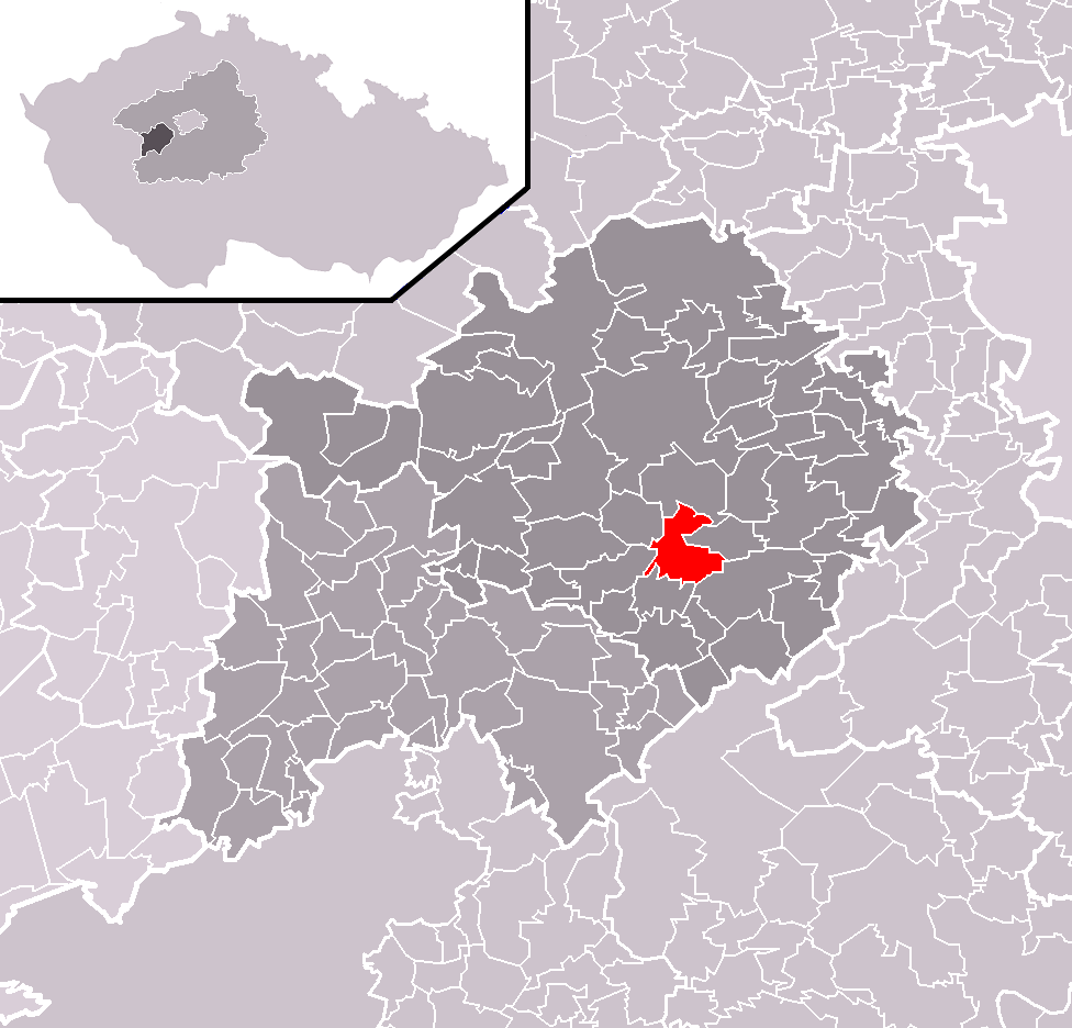 Location of Měňany municipality within Beroun District and administrative area of Beroun as a Municipality with Extended Competence.